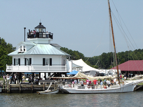 Hooper Strait Light at the Chesapeake Bay Maritime Museum, St. Michaels, Maryland, United States.